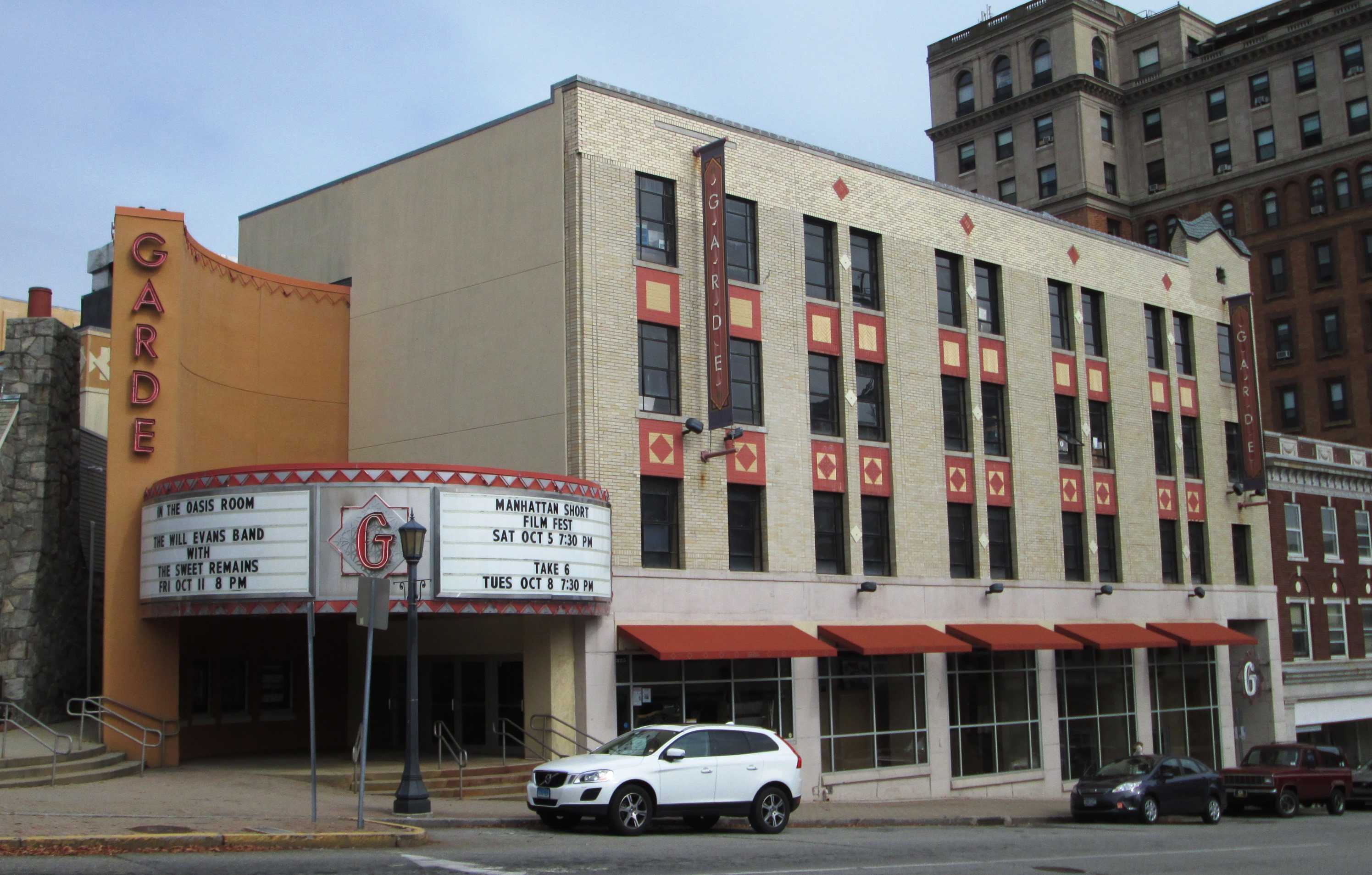 The Garde Arts Center, at 325 State Street at Huntington Street in New London, Connecticut, was built in 1926 as the Garde Theatre, a vaudeville and movie house, and was designed by Arland W. Johnson in the Art Deco style. The Garde Arts Center was founded in 1985 to save and reuse the theatre, which was in danger of being demolished after closing in 1977. The Center includes the Garde Office Building, which includes a 130-seat performance space, the Mercer Building, where the Center's offices are located, and the Meridien Building. All three buildings are located on the site of the mansion of whaling merchant William Williams. (Source: [1] and [2])